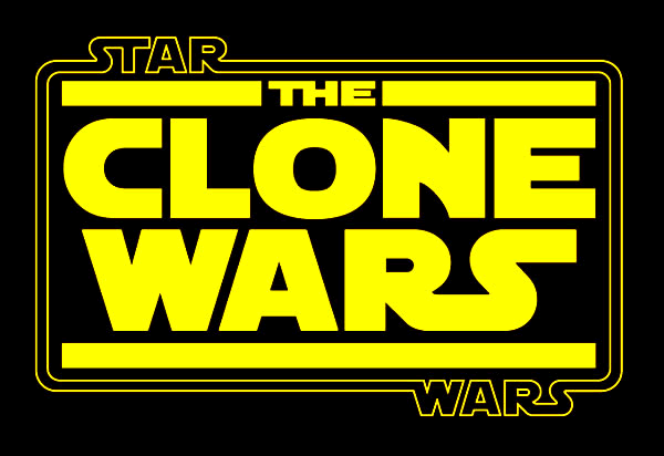 Logo of Star Wars: The Clone Wars